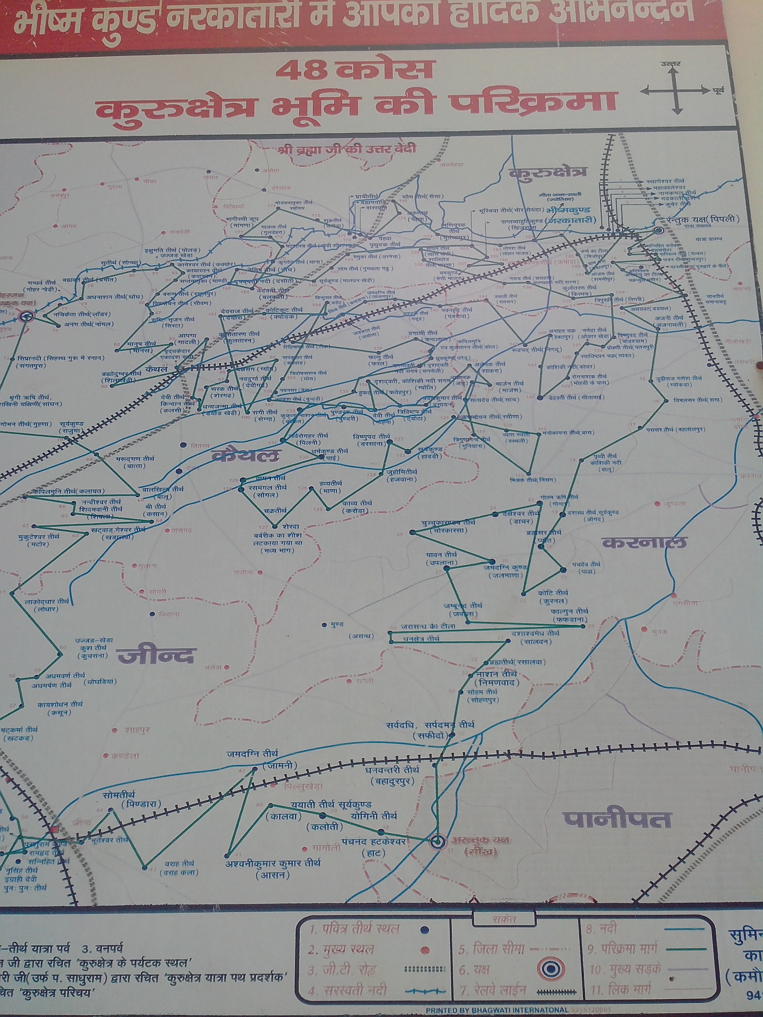 Kurukshetra has a bunch of pilgrimages in the 48 Kos circle around it.